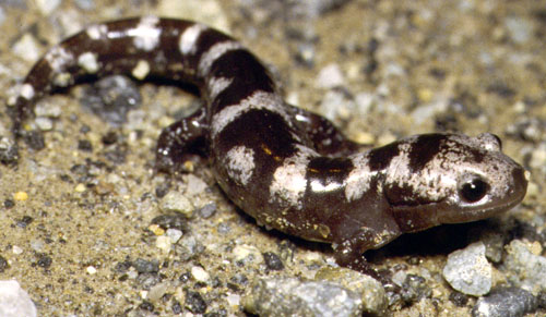 Marbled Salamander, Ambystoma opacum, likely a female--bands are gray (whiter in males). Location: Durham County, North Carolina, United States. Roll 165.